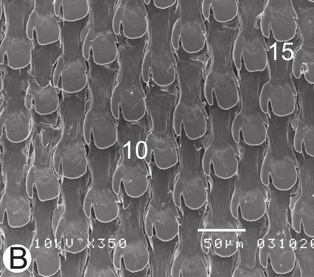 Photo of a radula of Amphidromus roseolabiatus from Ban Phavong, Khammouan, Laos (CUMZ 7012). Lateral teeth with the tricuspid marginal teeth transition. Scale bar is 50 μm.